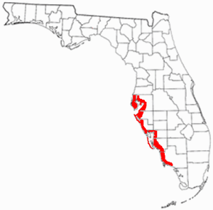 Map of Florida Suncoast. Made from other existing maps on Wikipedia